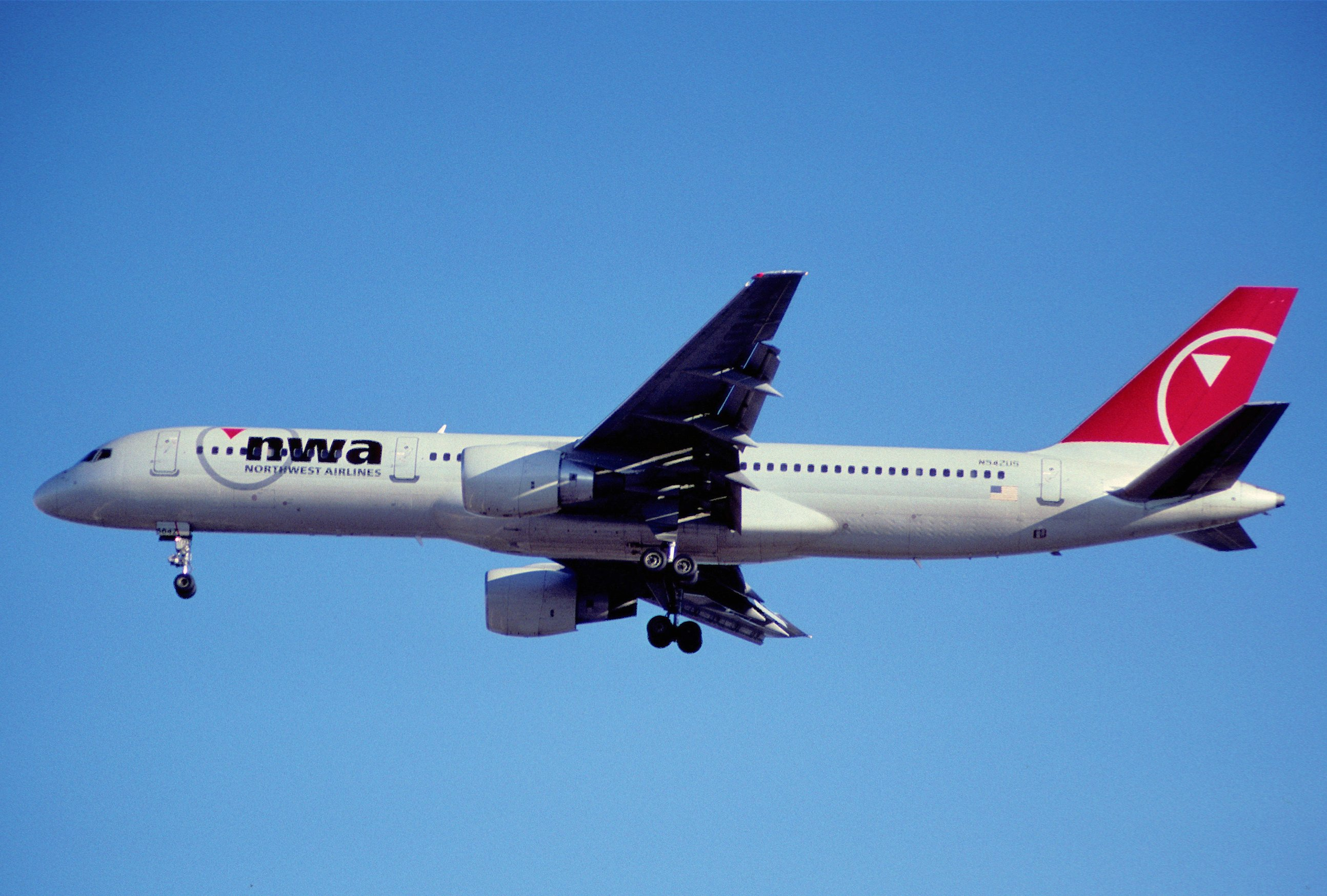 340an - Northwest Airlines Boeing 757-251; N542US@LAS; 01.03.2005